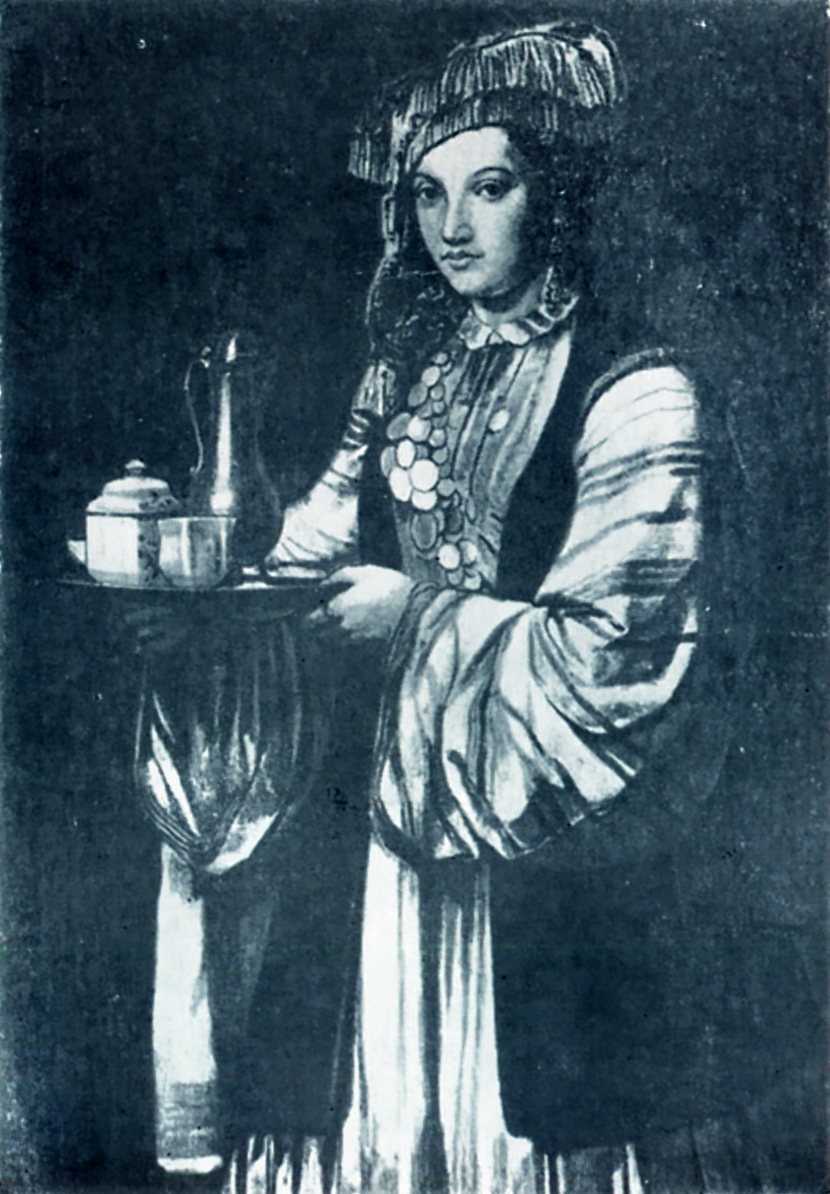 Tatar woman in 18th century.